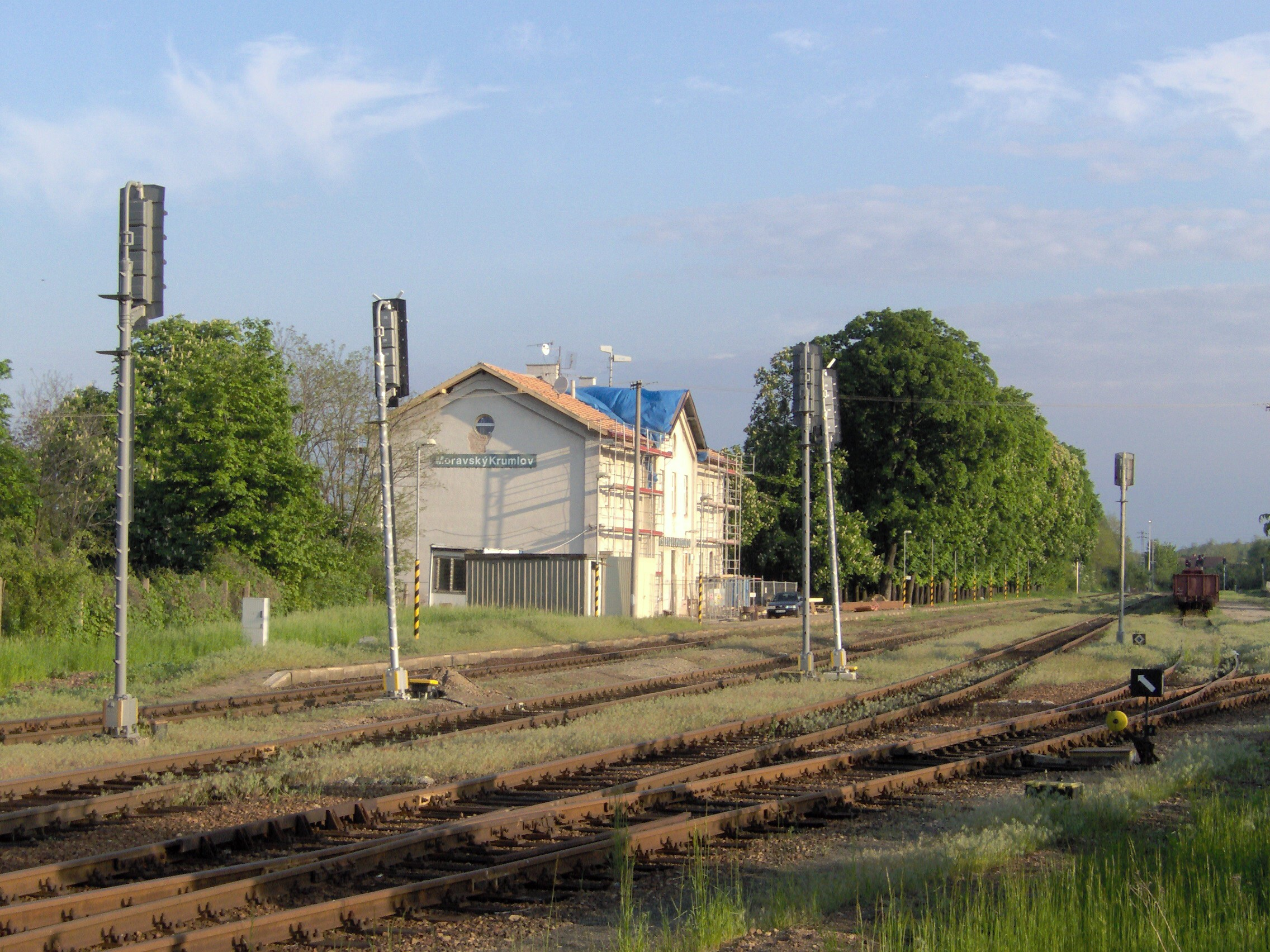 Moravský Krumlov train station, Znojmo District, Czech Republic